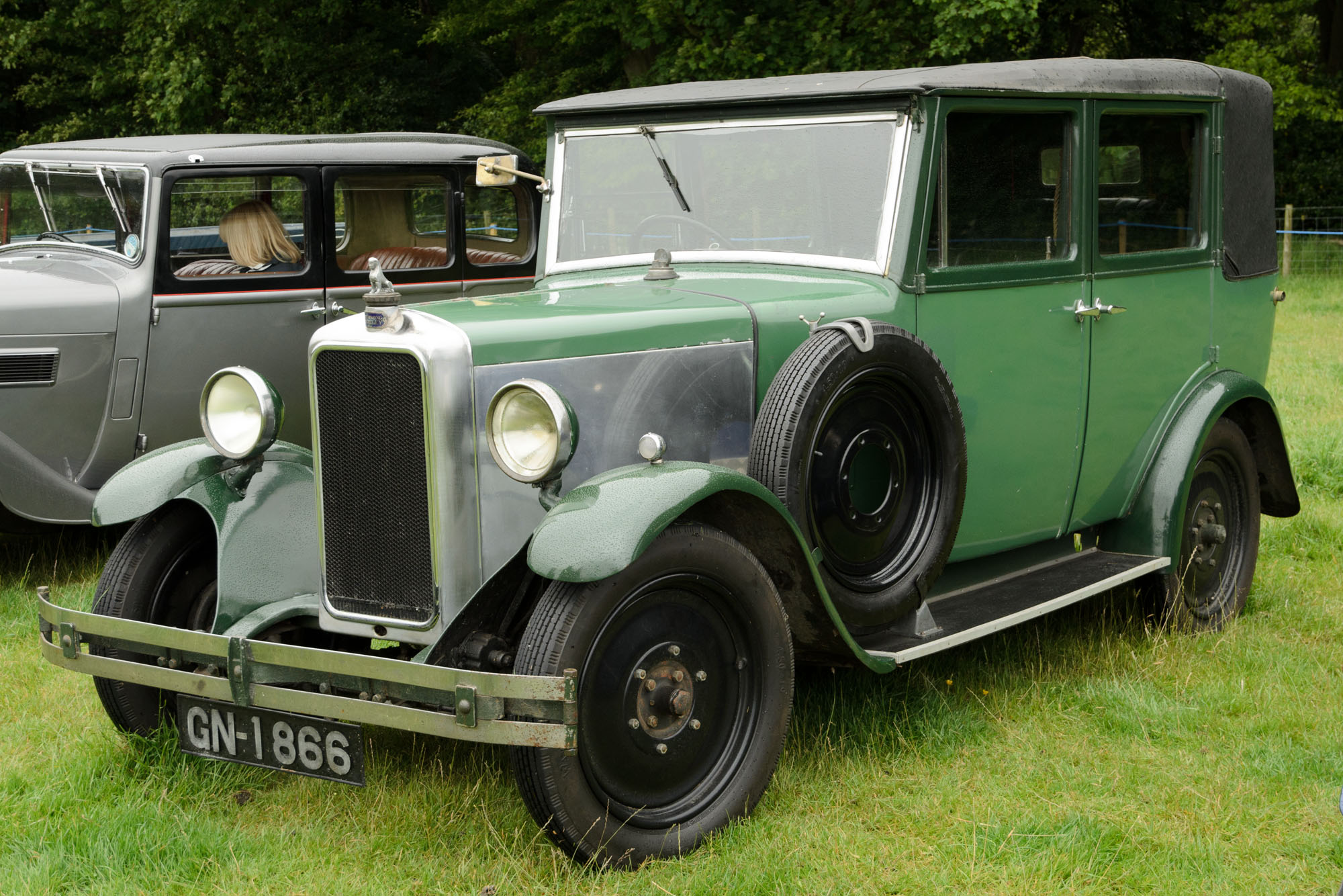 1931 Armstrong-Siddeley 12 hp (DVLA) first registered 4 February 1931, 1479 cc Hoghton Tower Classic Car Show 14/06/2015